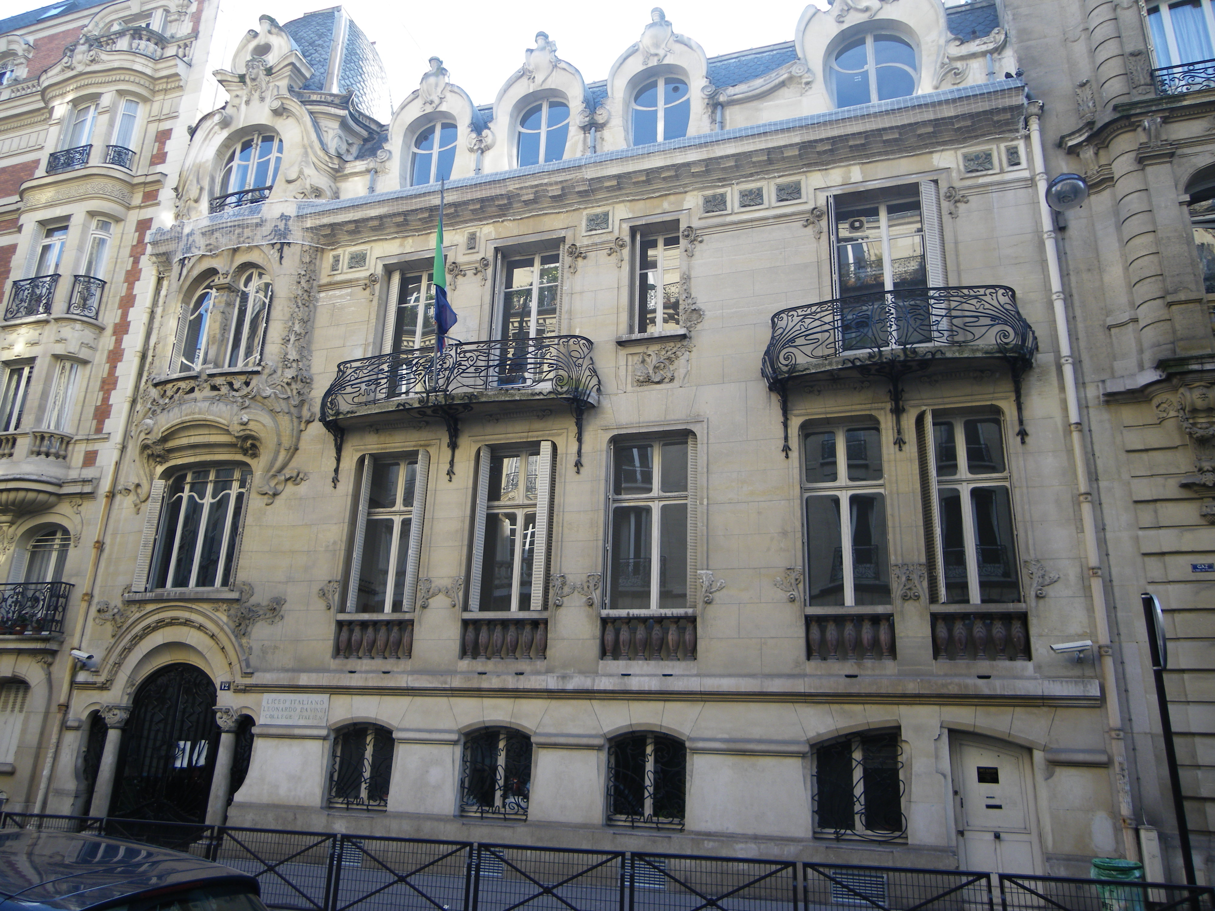 Front of a Art nouveau private mansion (around 1900) on 12 Sédillot street, now the Istituto Statale Italiano Leonardo Da Vinci (Italian international school) junior and senior high school and administration - 7th district of Paris.